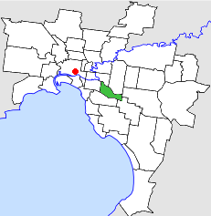 Location of the City of Malvern within Melbourne.